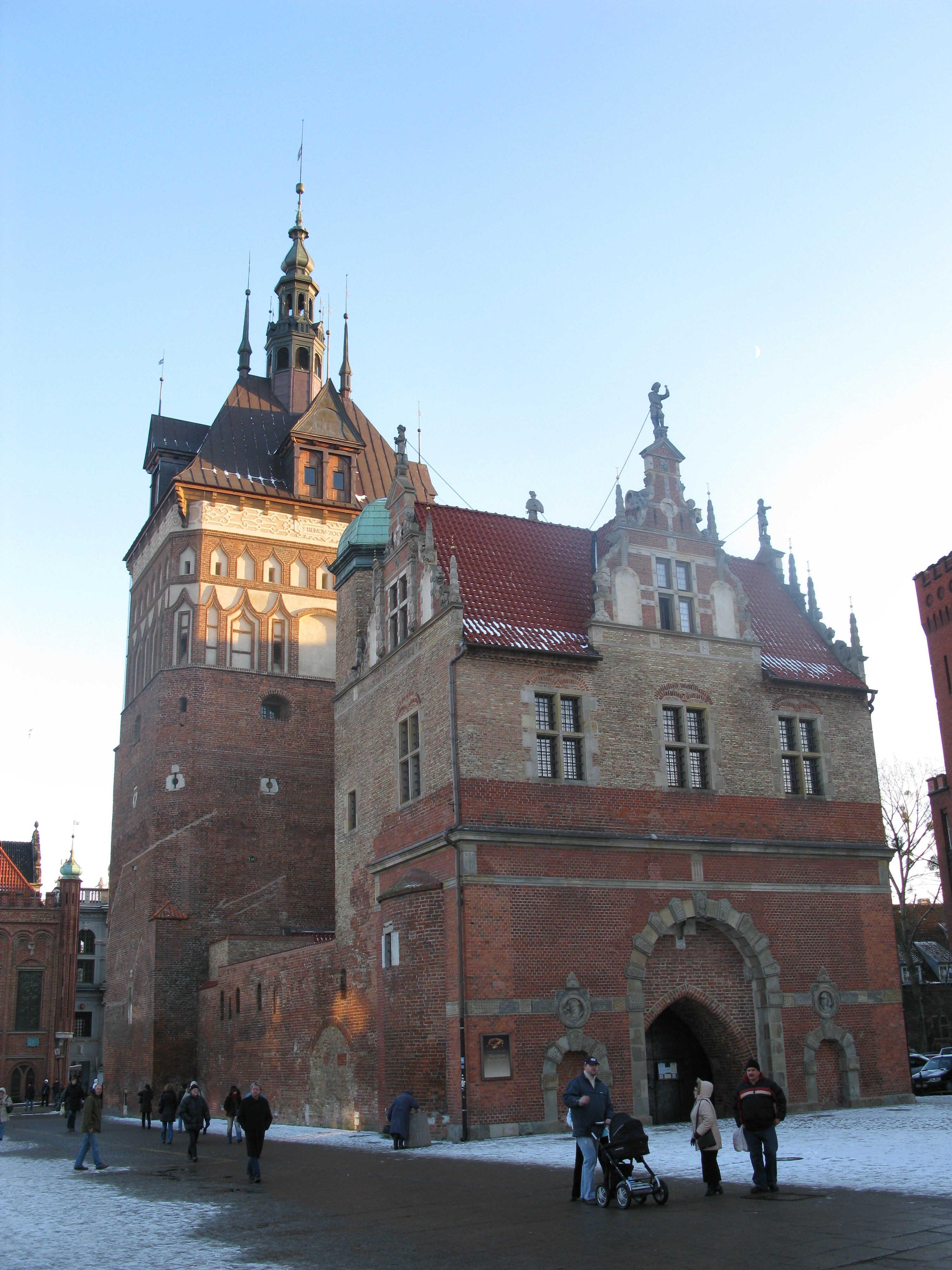 Gdansk, Poland, House of tortures.